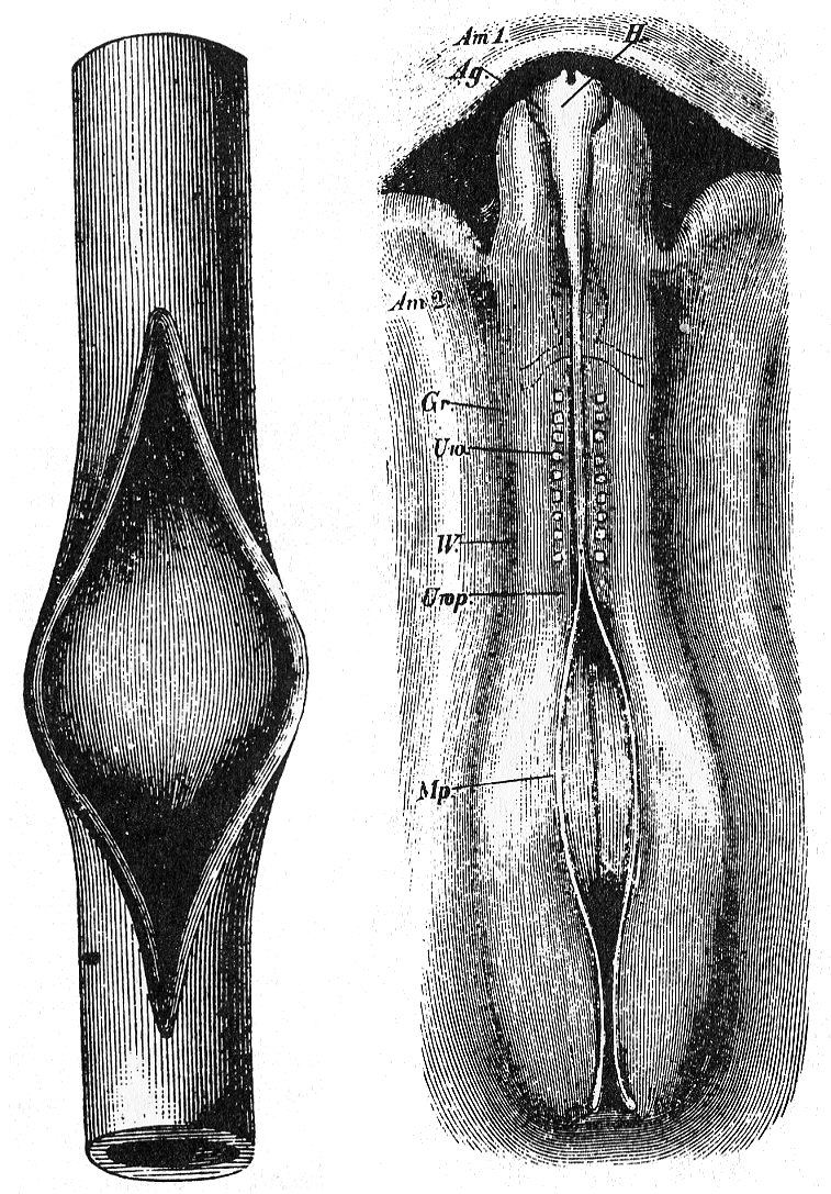 Wilhelm His drawing of chick embryo compared to slit rubber tube, 1874